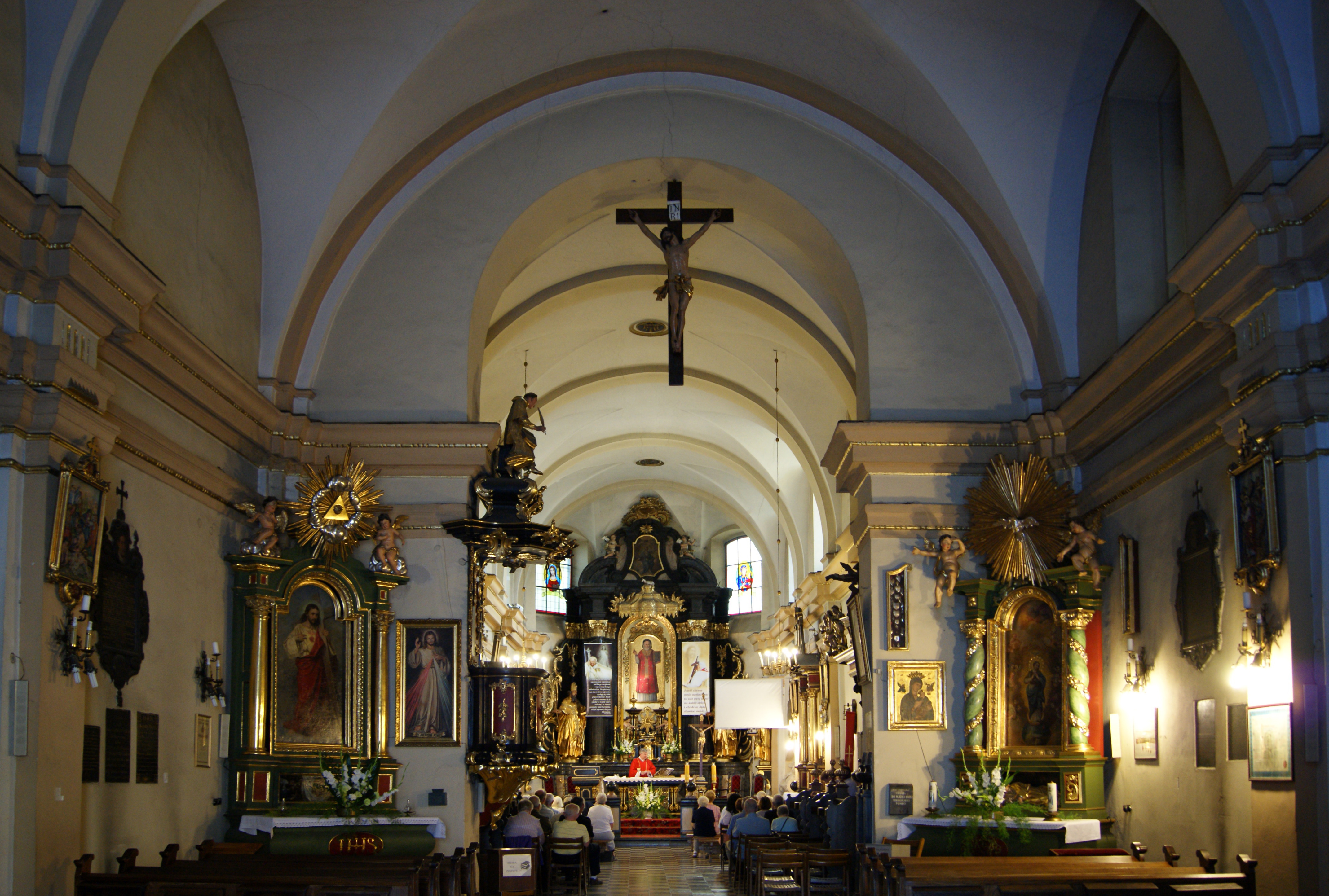 St Nicholas Church (interior), 9 Kopernika street, Krakow, Poland